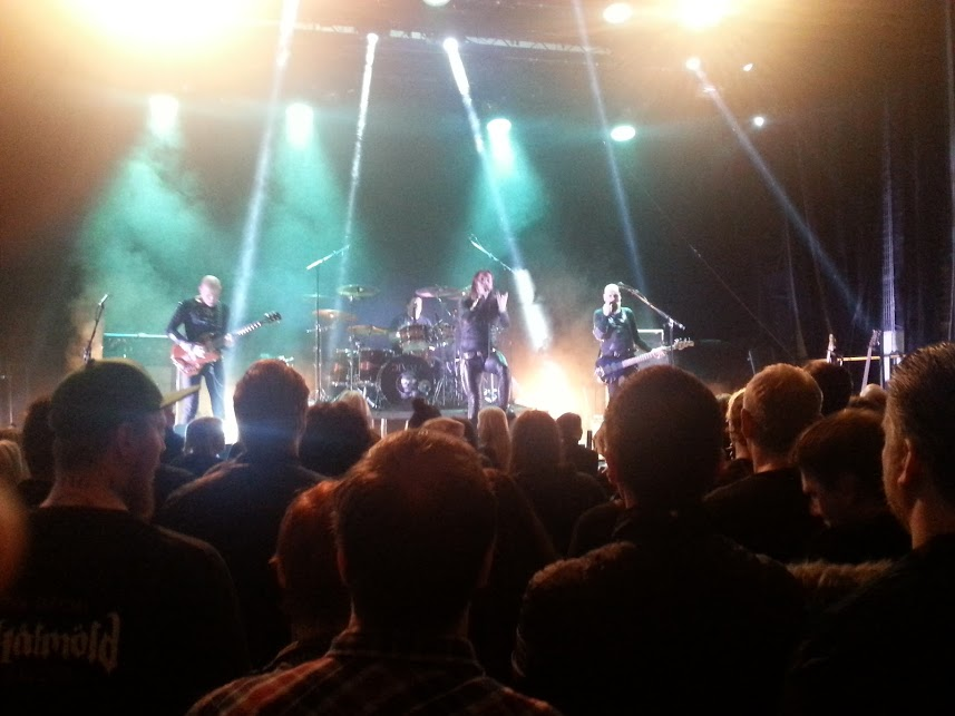 Dimma band